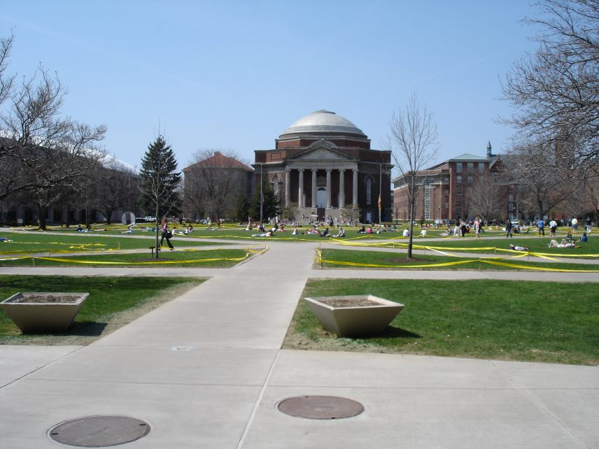 The Syracuse University Quad. Taken by me on April 19, 2005. The yellow tape was part of an exhibit/demonstration by an architecture class on this day. newkai